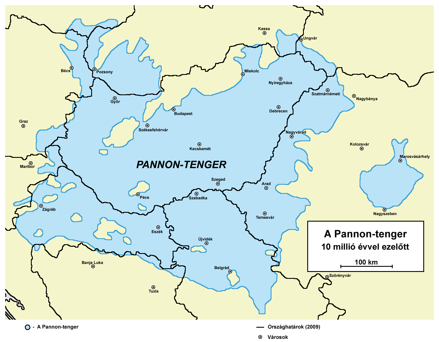 approximate extent of Pannonian Sea during the Miocene Epoch with modern borders and settlements Internet references: * [1] * [2]